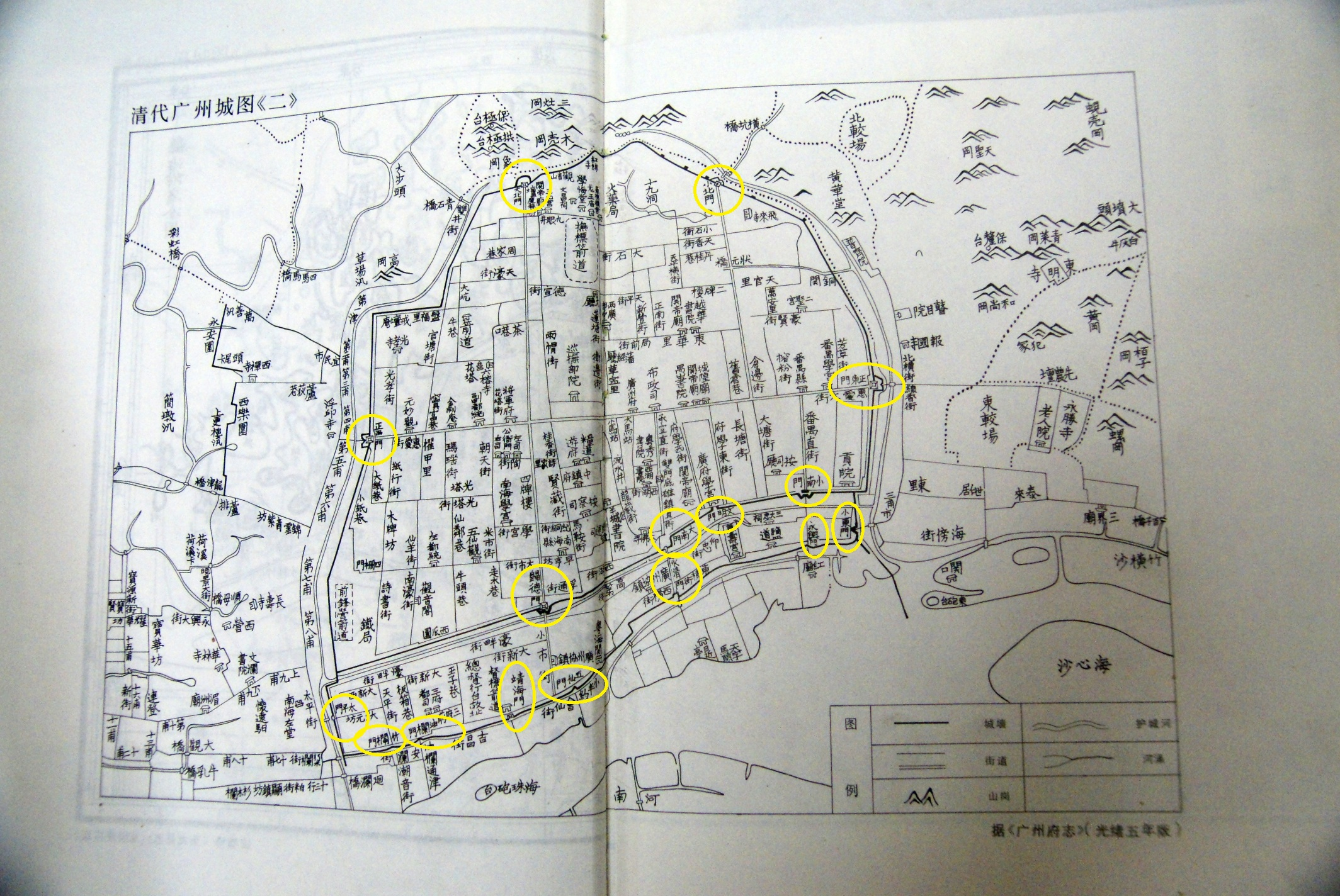 guangzhou city map in Qing dynasty